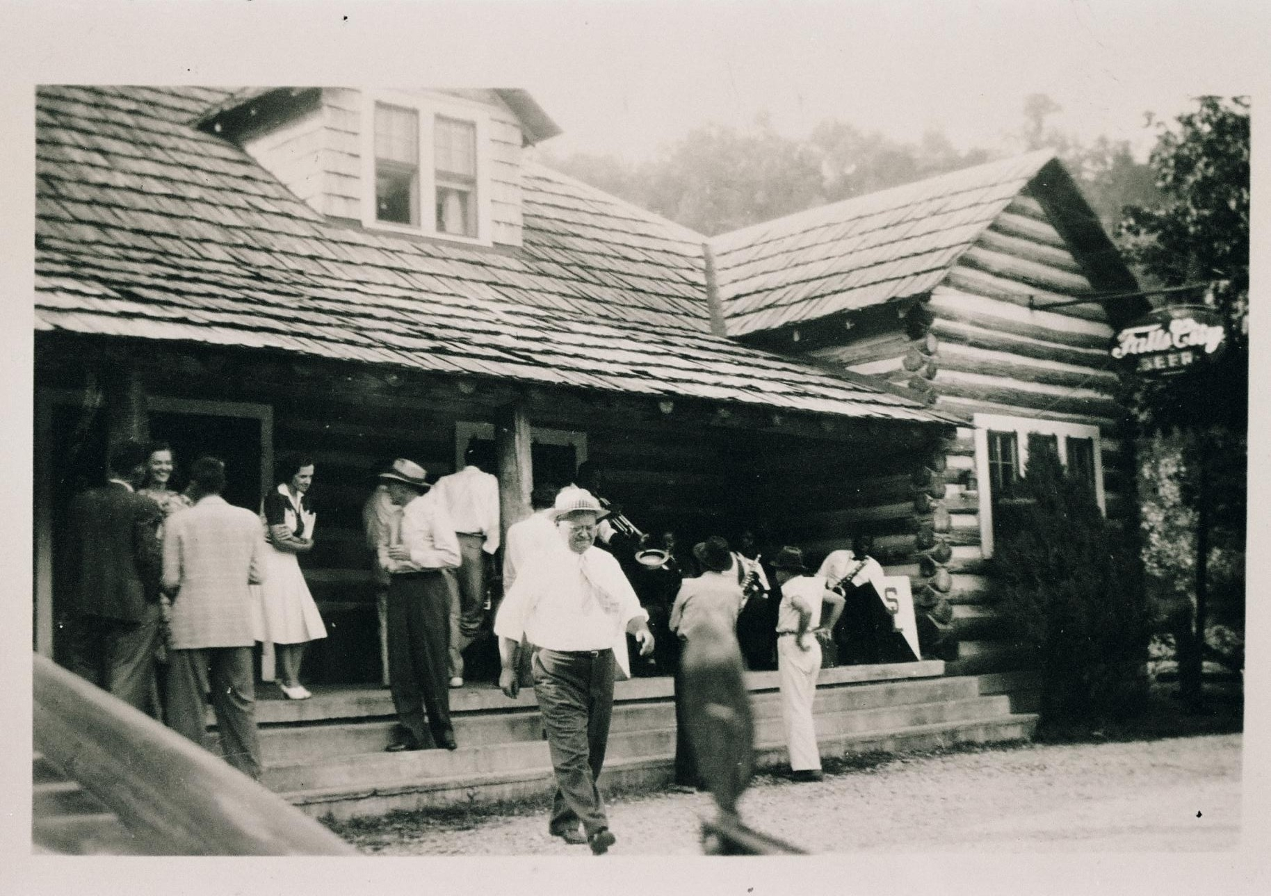 Old picture showing visitors at Lincoln Tavern at Knob Creek